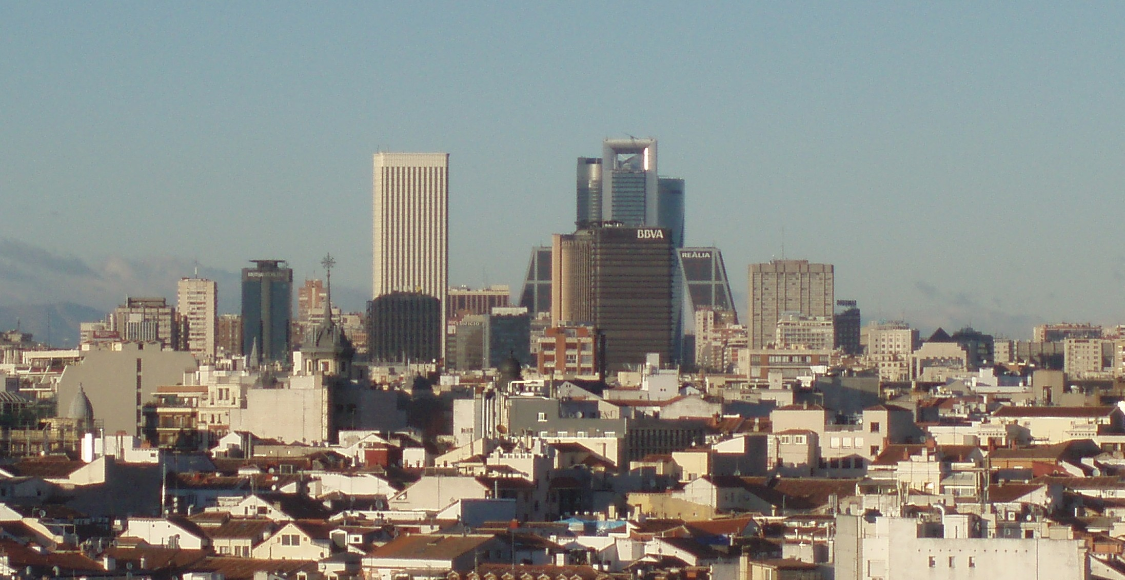 Skyscrapers in Madrid (Spain), seen from Círculo de Bellas Artes' flat roof (downtown).